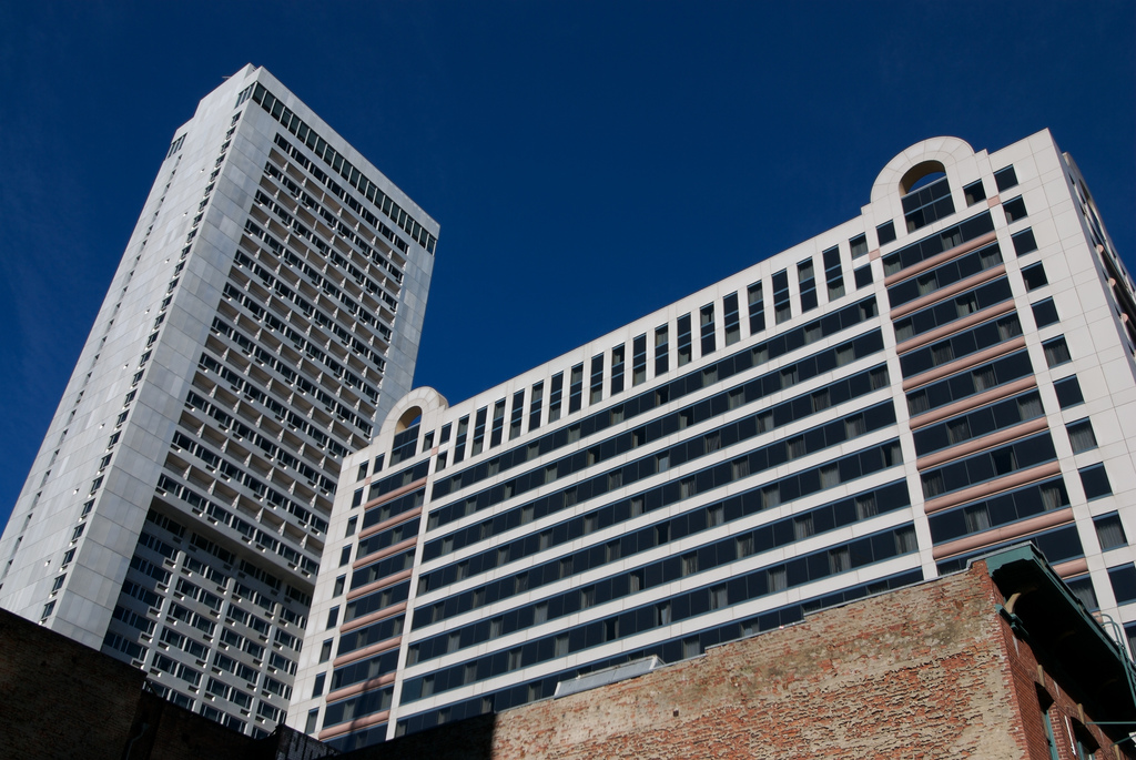 Hilton San Francisco & Towers, downtown San Francisco